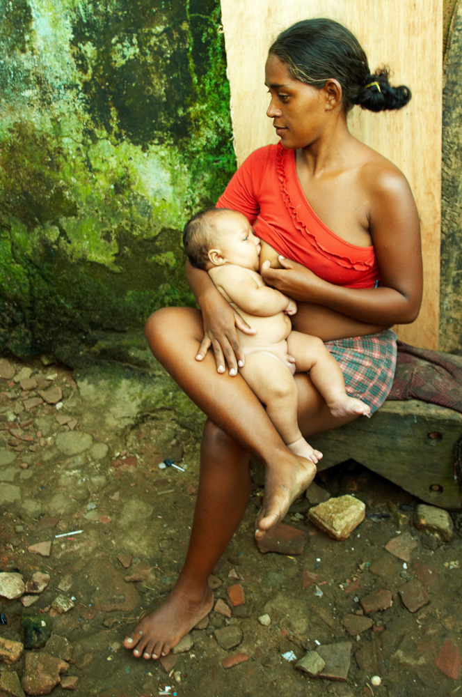 A woman breastfeeding in the Favela do Maruim, Natal/RN, Brazil.